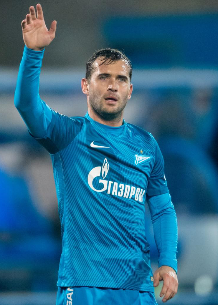 19.03.2017. Россия, Санкт-Петербург, «Петровский», Большая арена. РОСГОССТРАХ-Чемпионат России 2016/17, 20-й тур, «Зенит» — «Арсенал».